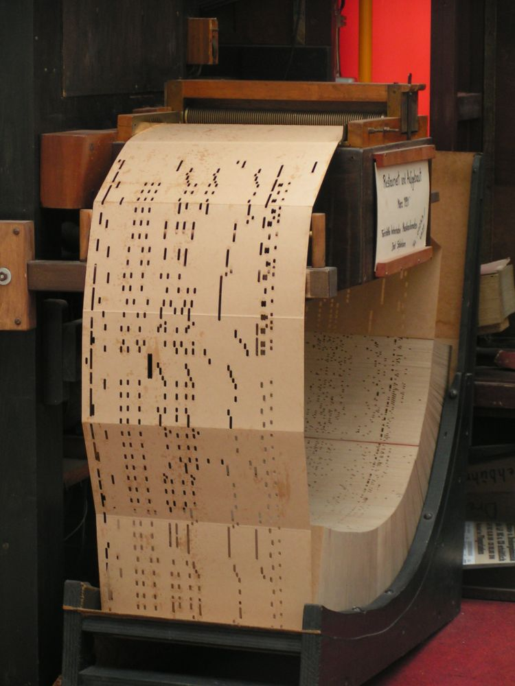 Punch card of a Decap Dancing Orgel, Technical Museum in Speyer, Germany